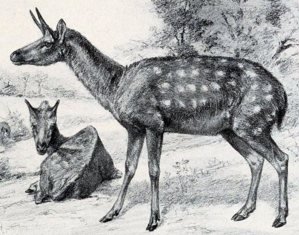 Crop of file in filename